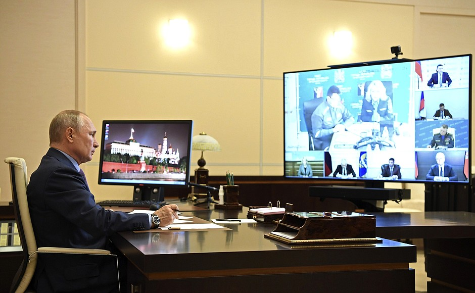 "Vladimir Putin held a meeting on measures being taken to clean up a diesel fuel leak in the Krasnoyarsk Territory."